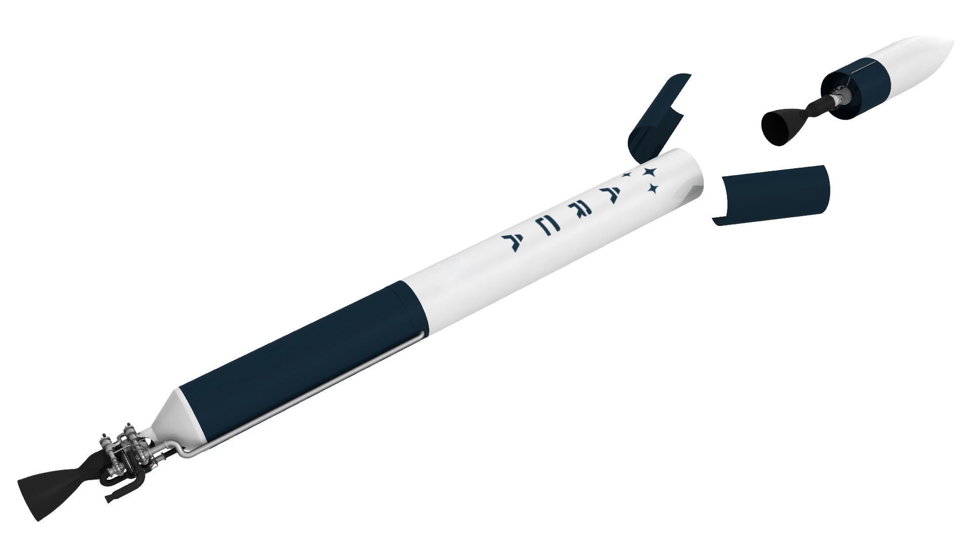 Computer generated image of Haas 2C orbital rocket launcher